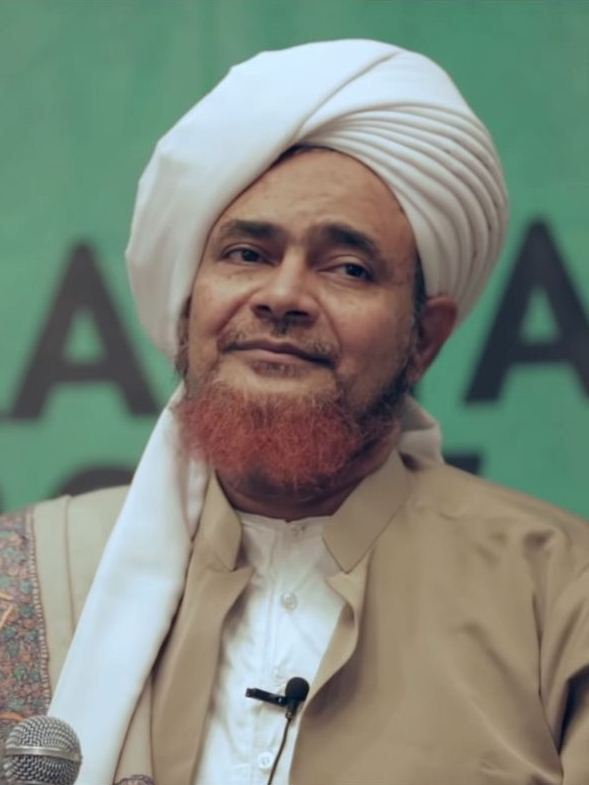 Exclusive Talkshow of Habib Umar bin Hafidz dialogue with entrepreneurs translated by Habib Jindan bin Salim bin Jindan with Ustad Abdul Somad Lc., MA. as an emcee.